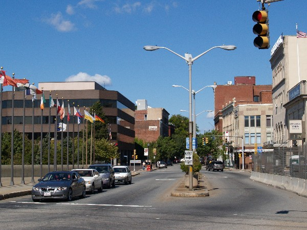 Downtown Fall River, Massachusetts